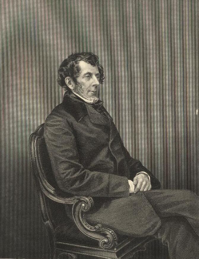 A portrait from the Welsh Portrait Collection at the National Library of Wales. Depicted person: Thomas Slingsby Duncombe – British politician